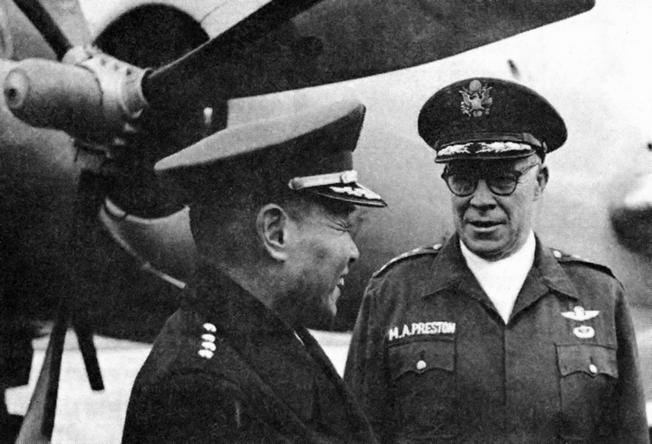 Original caption: AIR CHIEFS VISIT -- Gen. Hirokuni Muta (left), chief of staff of the Japanese Air Self Defense Force, is welcomed by Gen. Maurice A. Preston, USAF, Commander in Chief, U.S. Air Force Europe, upon his arrival at Wiesbaden AB, Germany. Gen. Muta was in Germany for an official visit with German Air Force officials and stopped at Wiesbaden to renew acquaintance with Gen. Preston, who was Fifth Air Force commander in Japan prior to his present assignment. Department of Defense photo, scanned from .